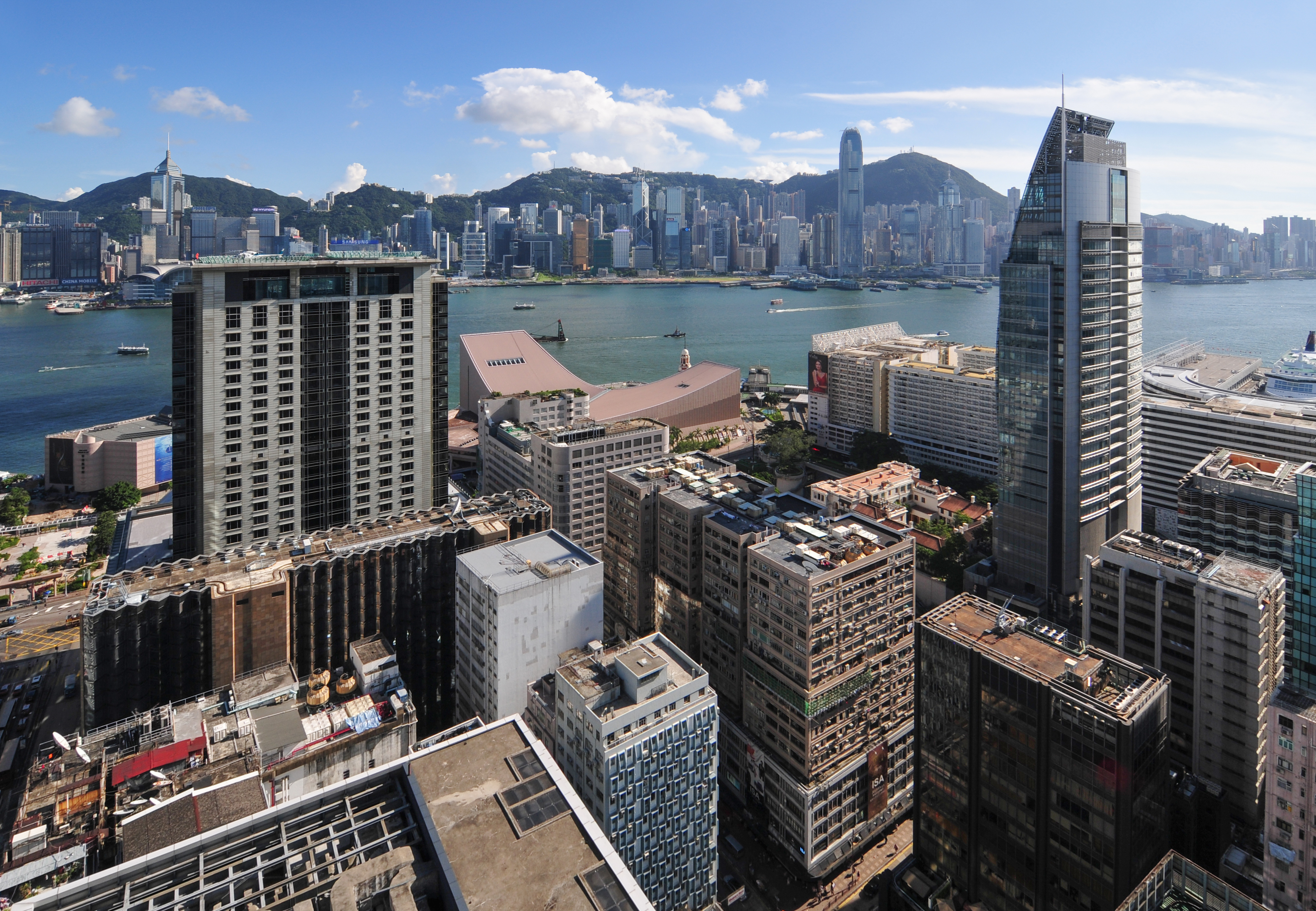 Hongkong, view from Kowloon to Hongkong Island